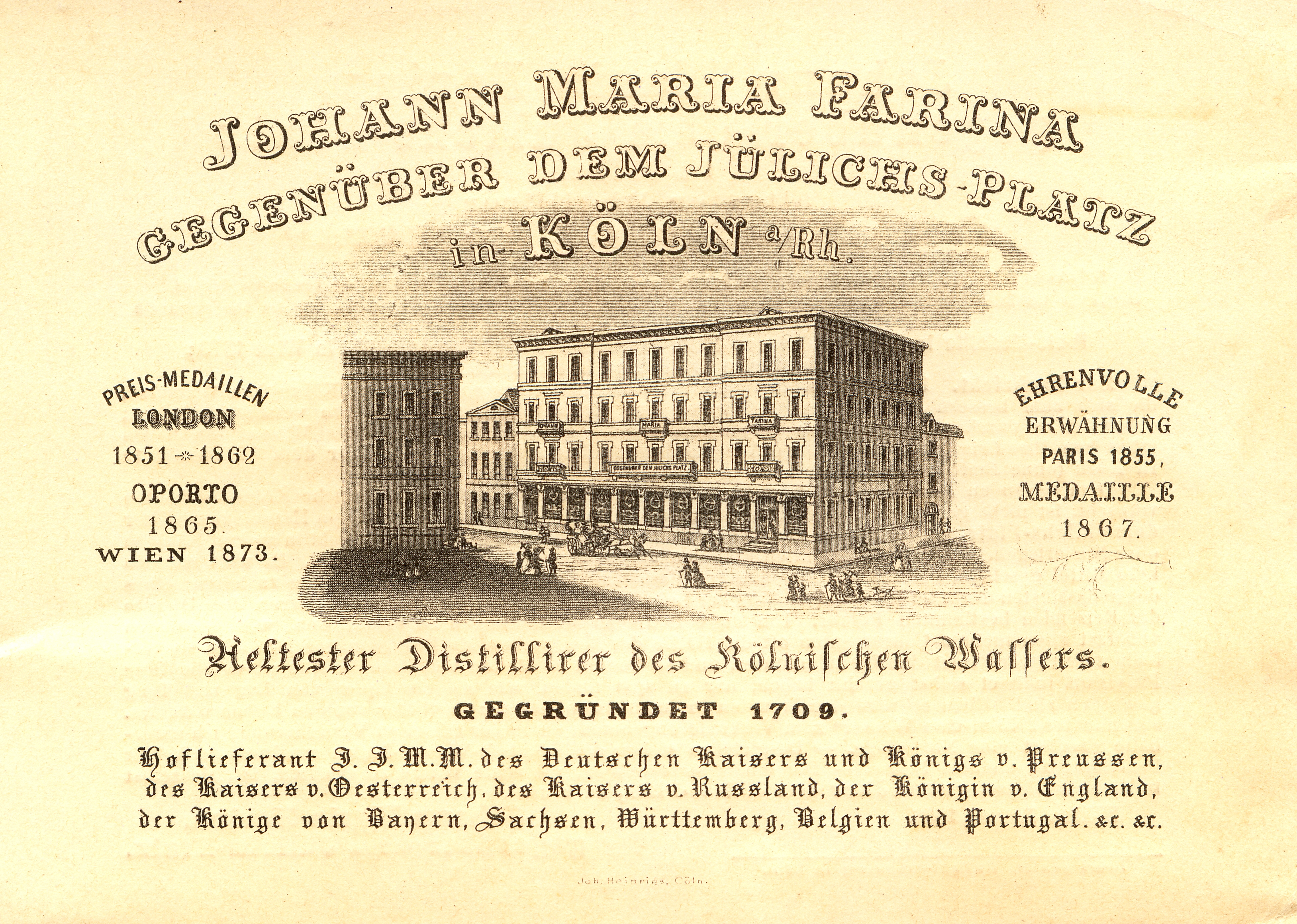 Trade card for Cologne-maker Farina, 1888